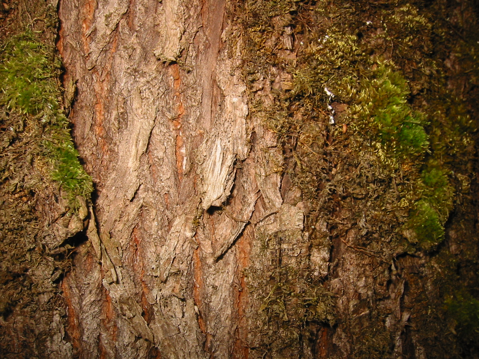 Bigleaf Maple bark. Often maple bark is completely covered with mosses and lichen. This one was somewhat of an exception.